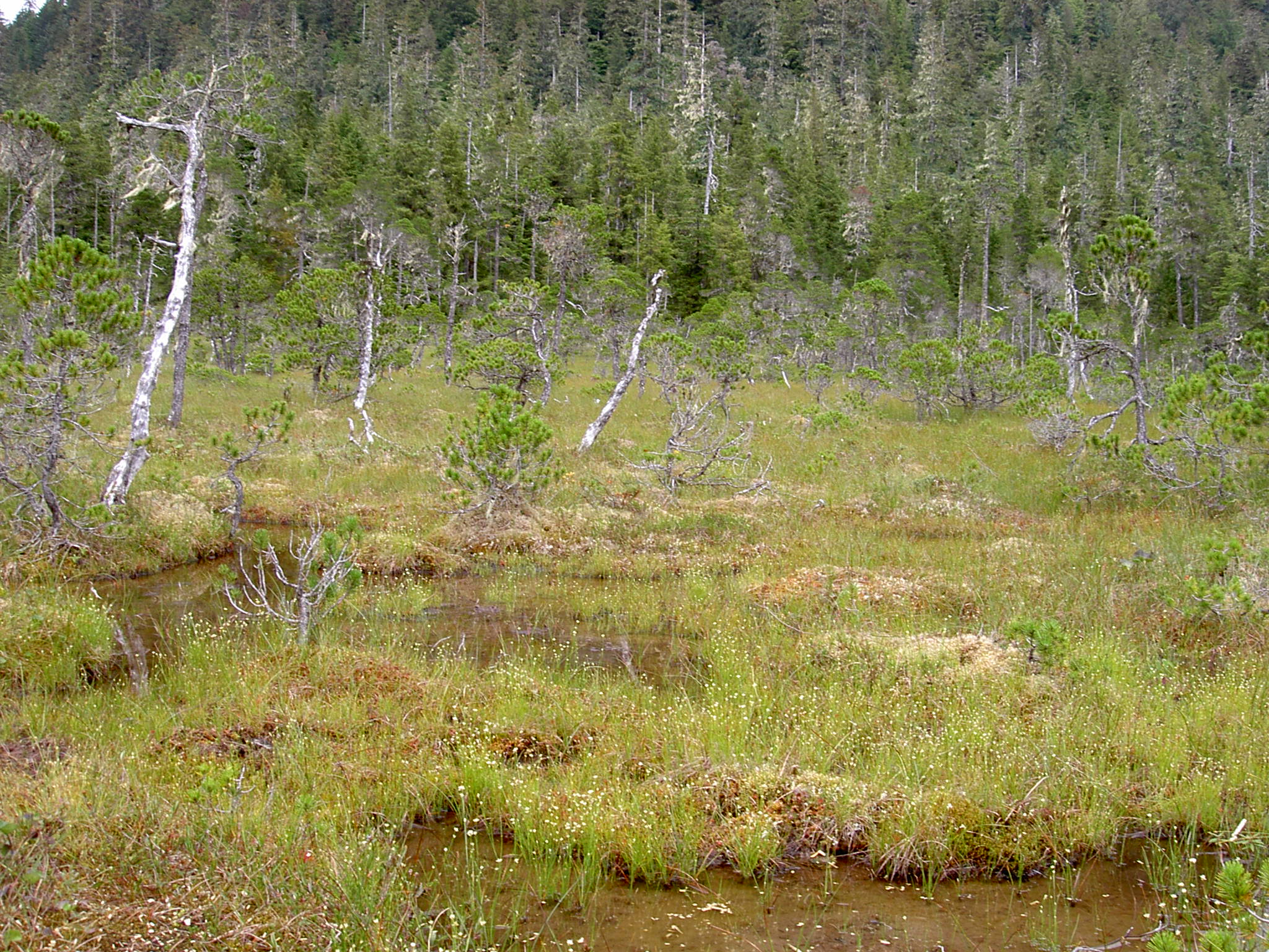 a muskeg with stunted Pinus contorta subsp. contorta, on the south slope of Petersburg Mountain on the Lindenberg Peninsula of Kupreanof Island in southeastern Alaska, United States